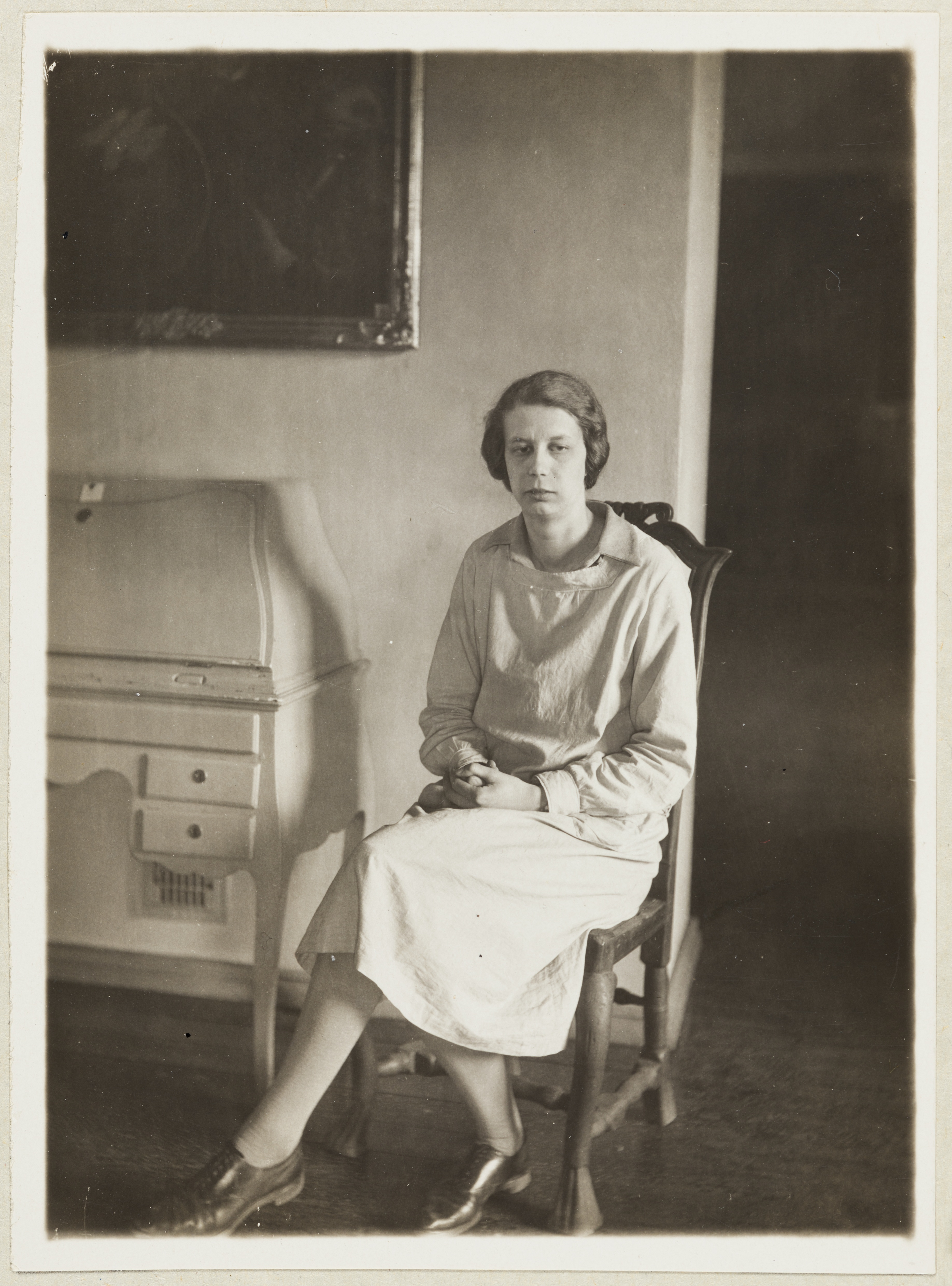 Photograph of the Finnish art historian Marta Hirn (1903–1995).